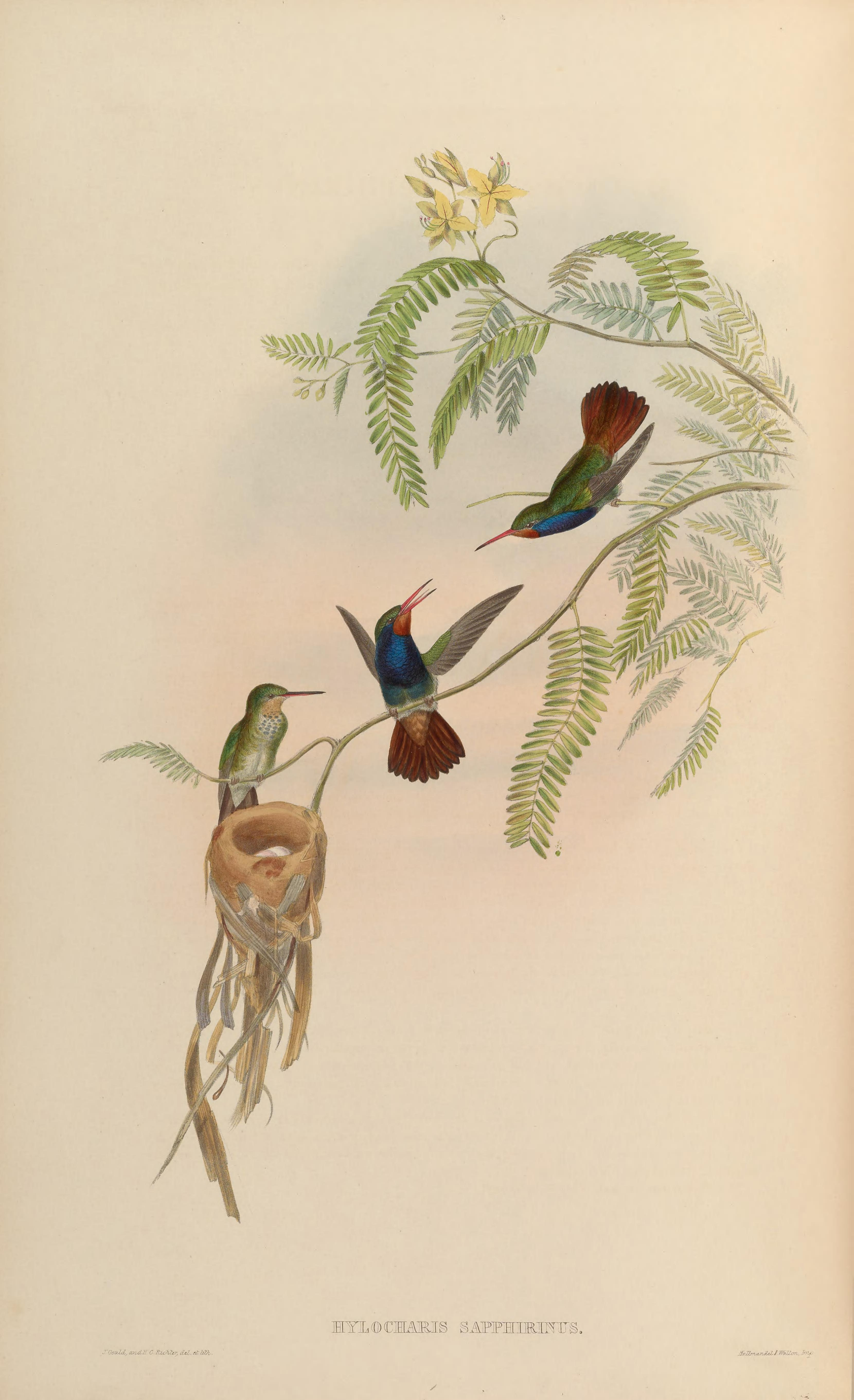 Hylocharis sapphirina[1]